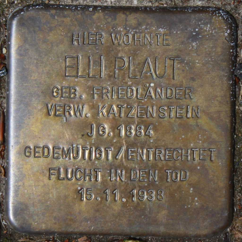 Stolperstein ("stumbling block") memorial for Elli Plaut located at Am Forsthof 21, Wuppertal, Germany. The text reads: "Here lived Elli Plaut, nee Friedländer, widowed as Katzenstein, born 1884. Humiliated / disenfranchised, escape into death [by suicide] 15 November 1938." Ella Plaut's second marriage was to Dr. Theodor Plaut, a physician specializing in gastroenterology who served as a Social Democratic alderman in the city council of Frankfurt am Main until the Nazi seizure of power. Additional information on the family appears in the Wikipedia article on Elli Plaut's stepson, Richard Plant.